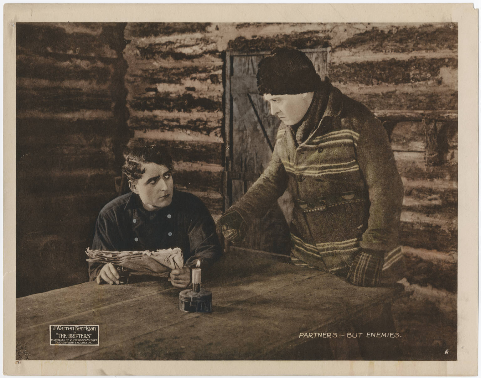 J. Warren Kerrigan in the American drama film The Drifters (1919). "Partners--but enemies." Lobby card, approx. 28 x 35.5 cm.